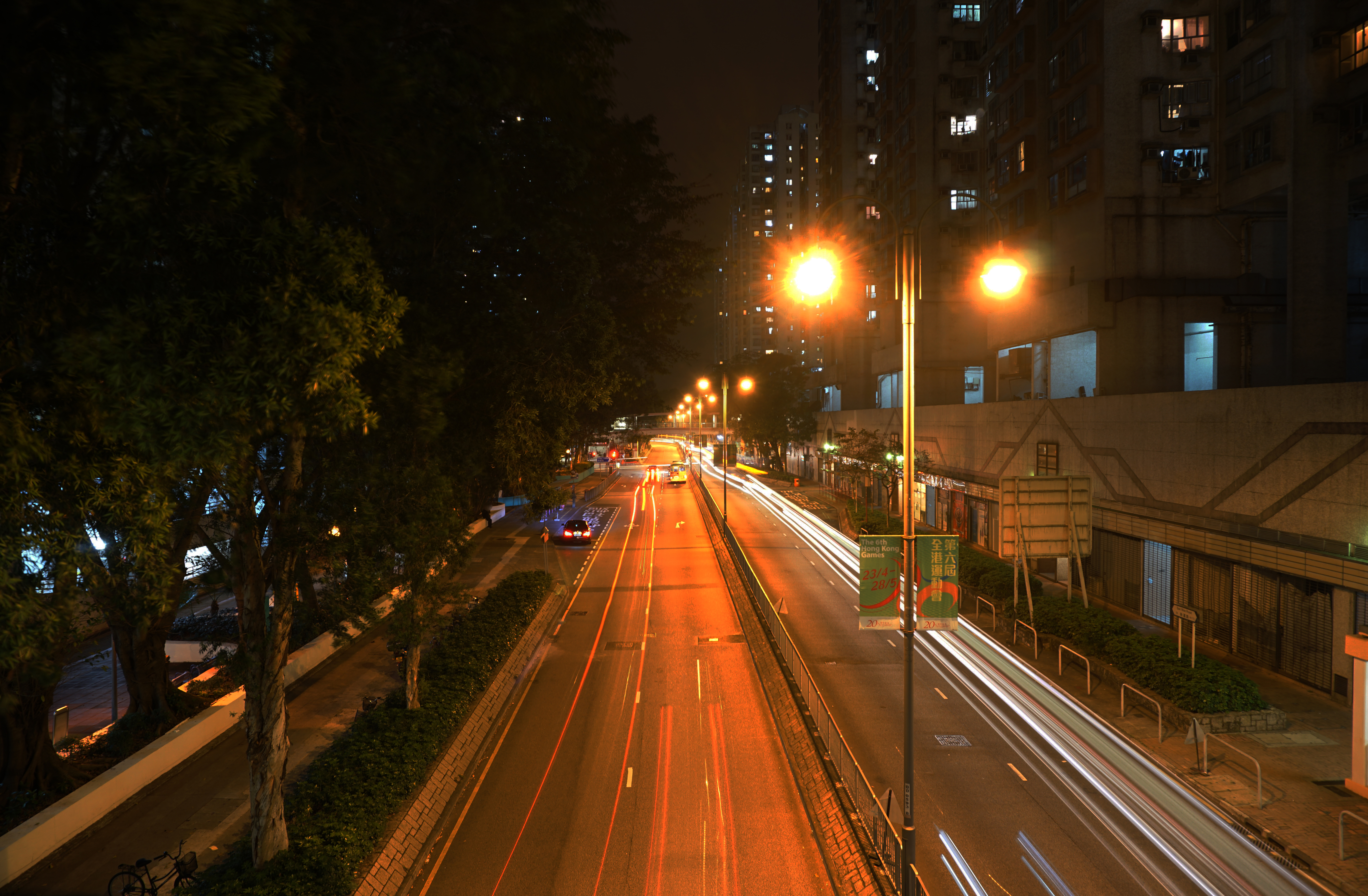 San Wan Road in Sheung Shui, Hong Kong.